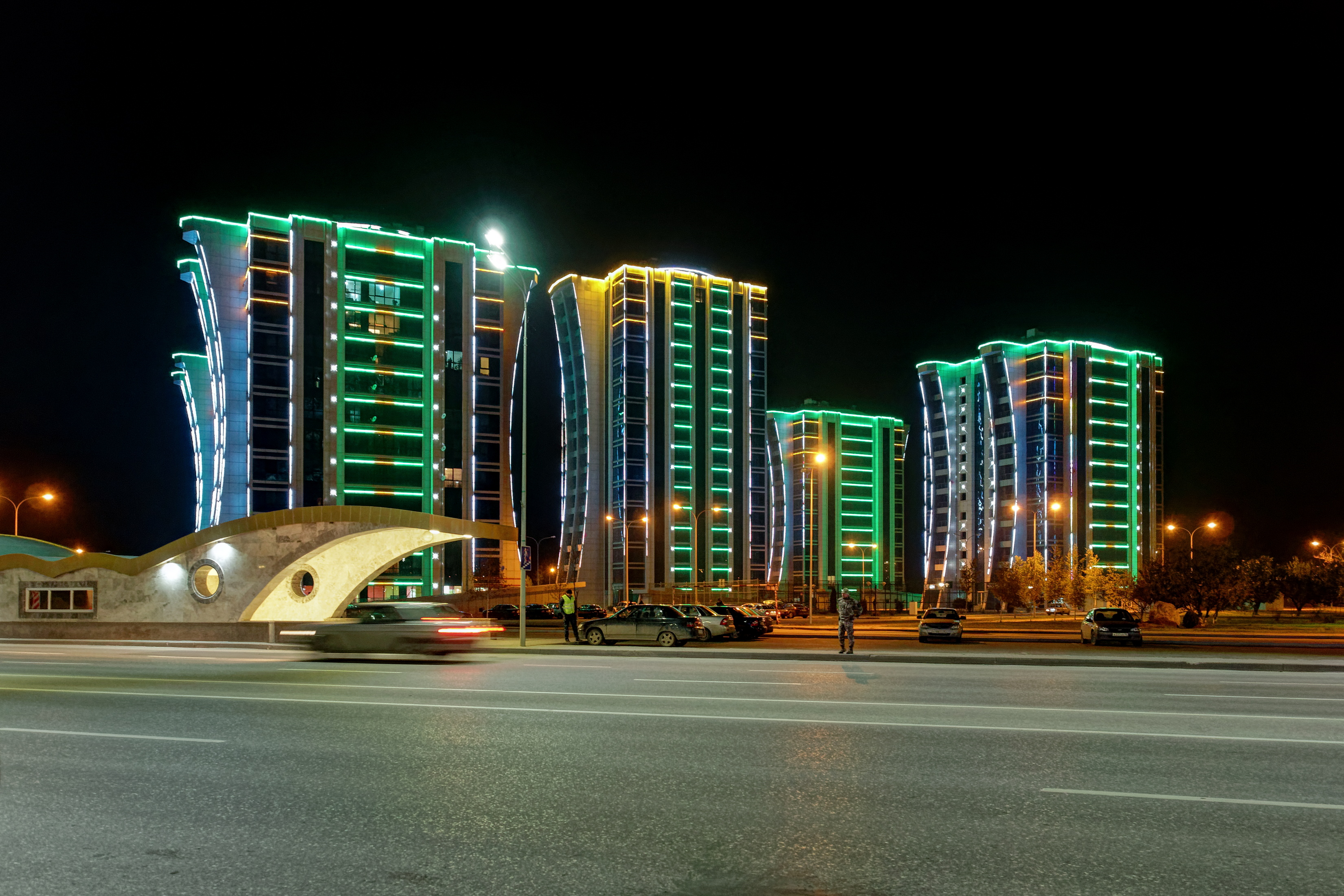 Argun